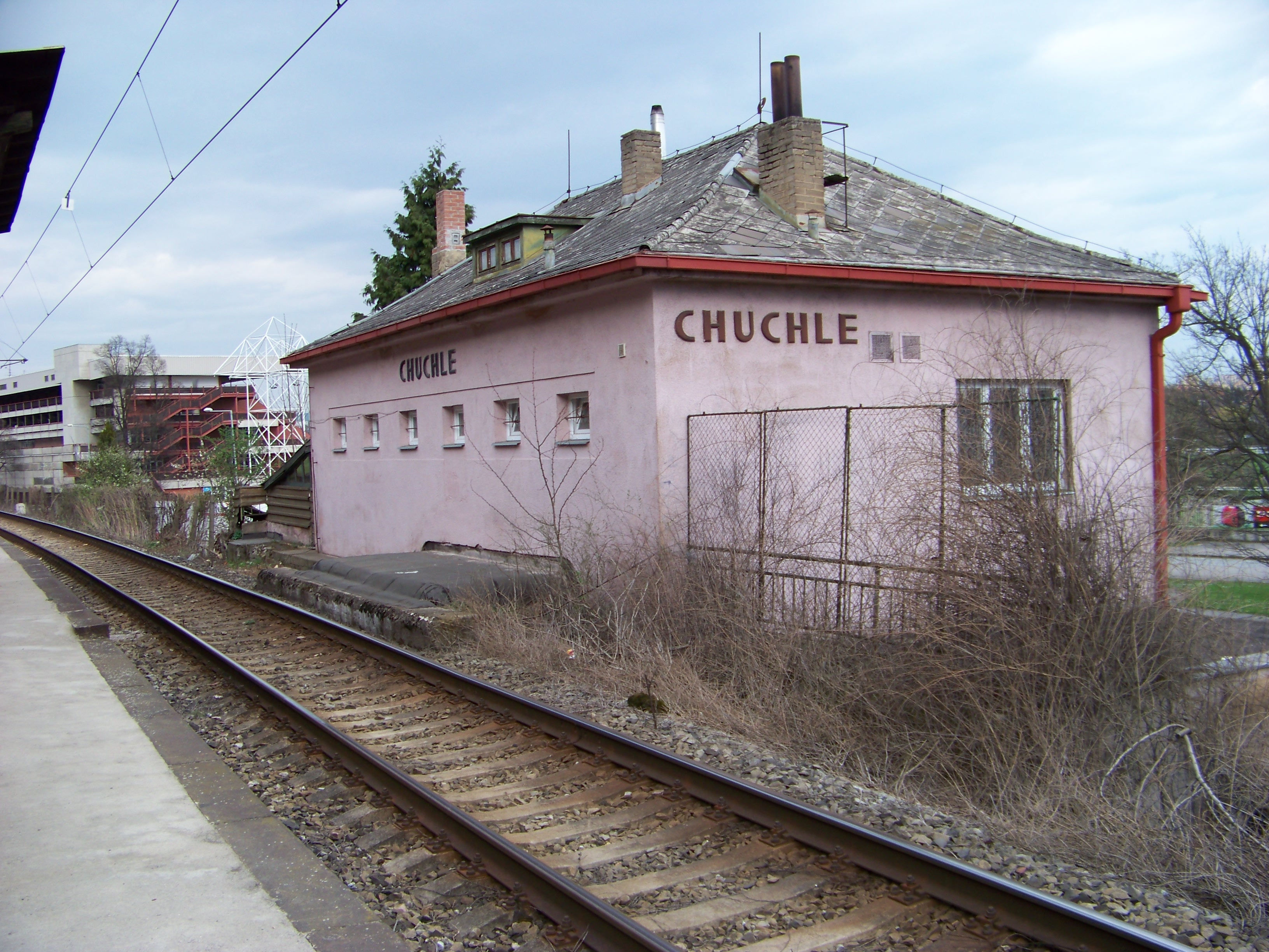 Prague-Velká Chuchle, the Czech Republic. A train station, a building.